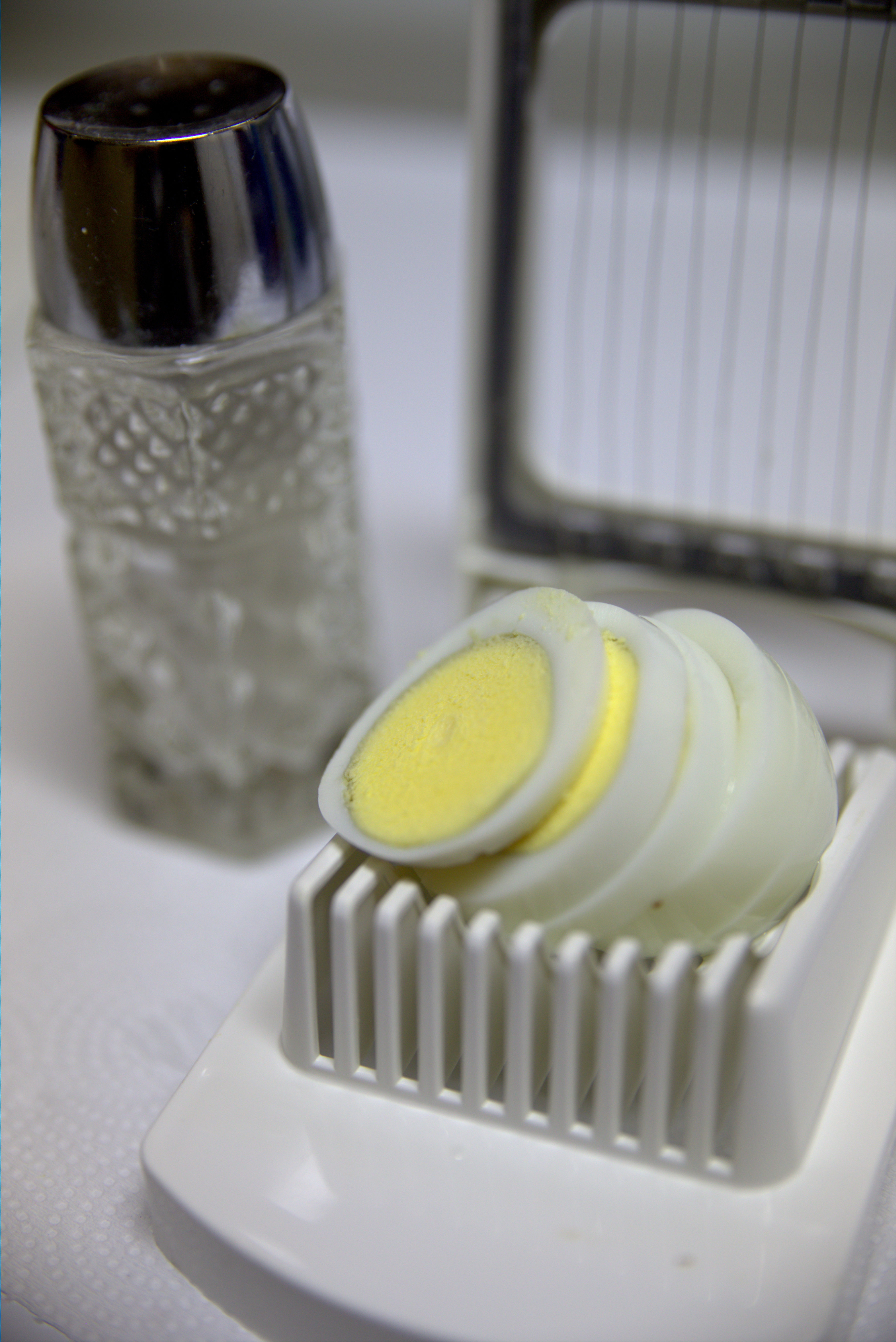 July 28 other